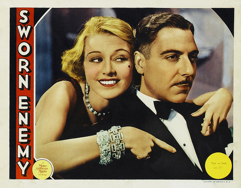 Lobby card for the 1936 film Sworn Enemy